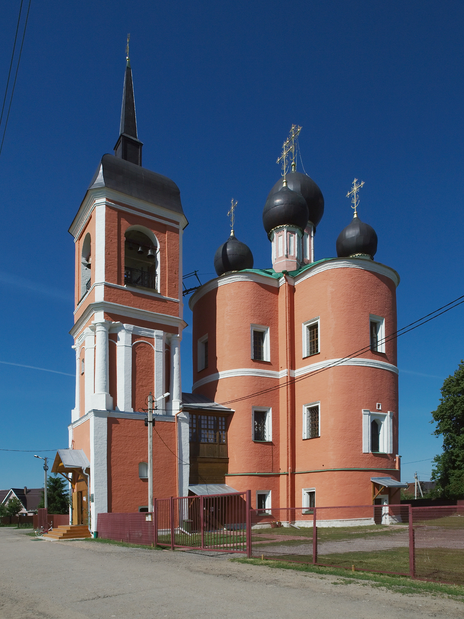 Church of the Ascension in Burtsevo, Moscow Oblast.